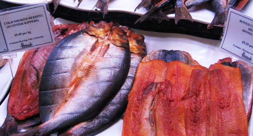 "Red herring": Cold smoked herring (Scottish kippers), brined so that their flesh achieves a reddish colour, for sale at Harrods department store.